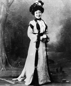 Sadayakko Kawakami (1871–1946) Sadayakko (New York City 1900), reproduced in L'Illustration No. 3264 (Sept. 16, 1905) Personal Collection Note: The article in L'Illustration claims that it depicts Sadayakko as Tomoye Fujin (the Japanese Desdemona) in Kawakami's February 1903 production of Othello.